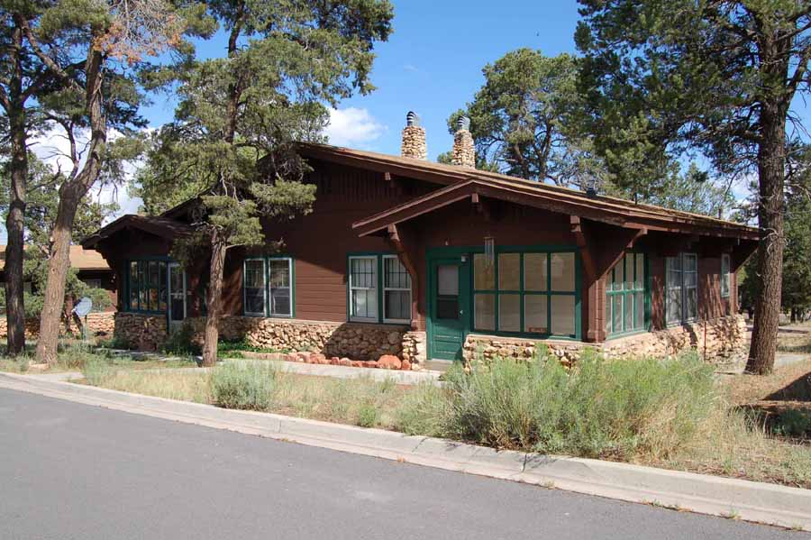 Apache Street House, built by the AT&Santa Fe Railway — in Grand Canyon Village, South Rim of the Grand Canyon, Grand Canyon National Park, Arizona. The residence is within the Grand Canyon Village Historic District, on the National Register of Historic Places in Grand Canyon National Park.